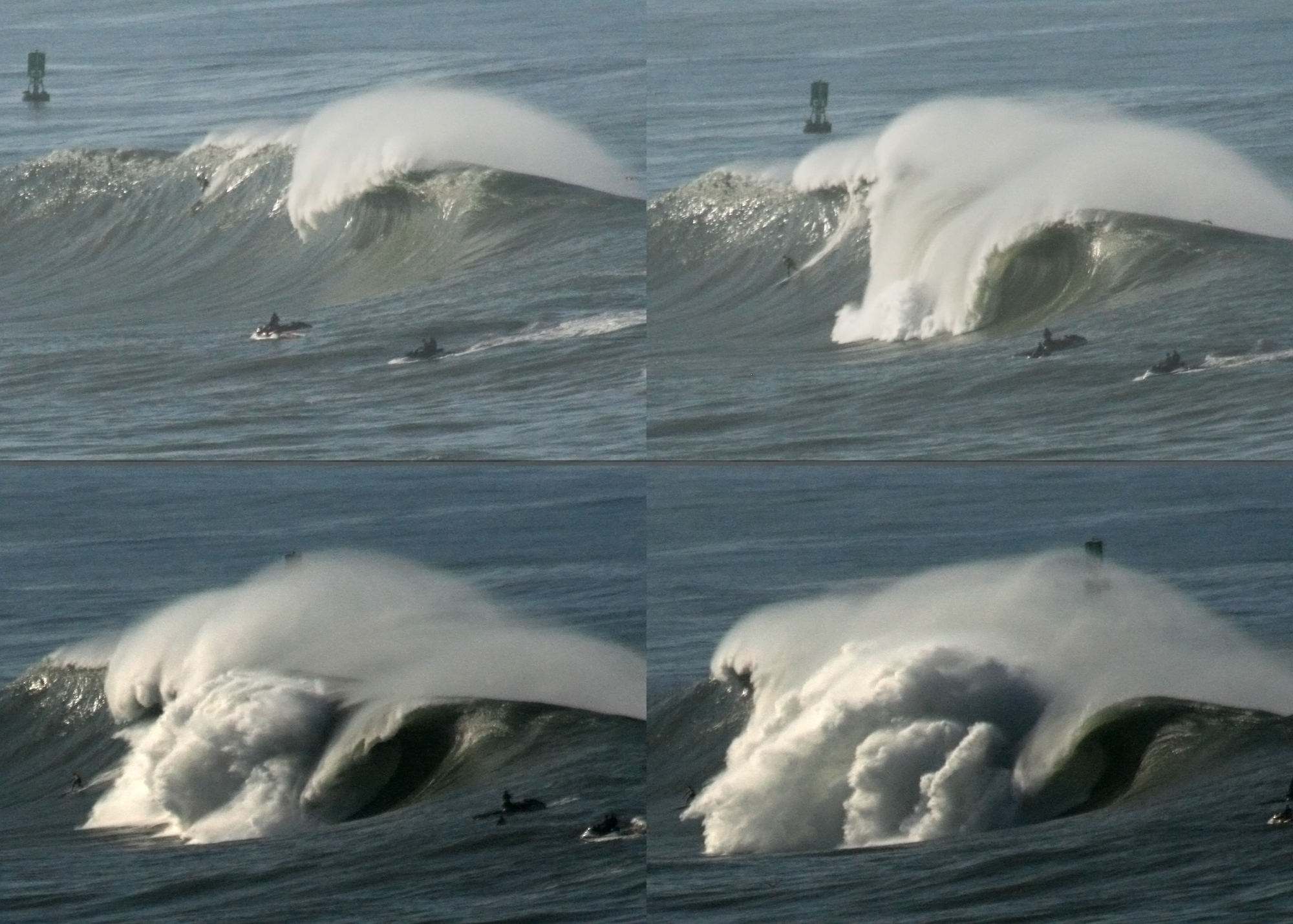 Four frame image shows The break of a single Mavericks wave. A tiny surfer is seen in every frame.